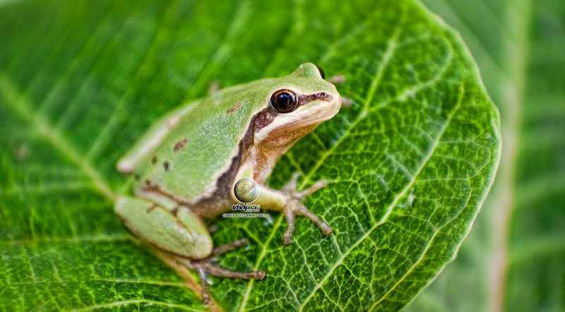 Hyla eximia laying on a Poinsettia Leaf in Aguascalientes, Mexico.